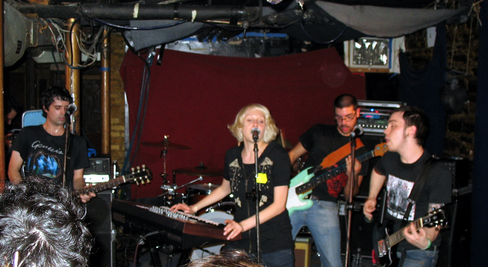 The best band ever with the most questionable name ever played an awesome, if short and slightly weird show as a taping for the MTV2 "Dew Circuit Breakout" battle of the bands thing. I fucking love these guys and perhaps this will be their chance to become frickin' enormous. Popularity-wise, not physically. I would have taken more pictures but I was too busy dancing.